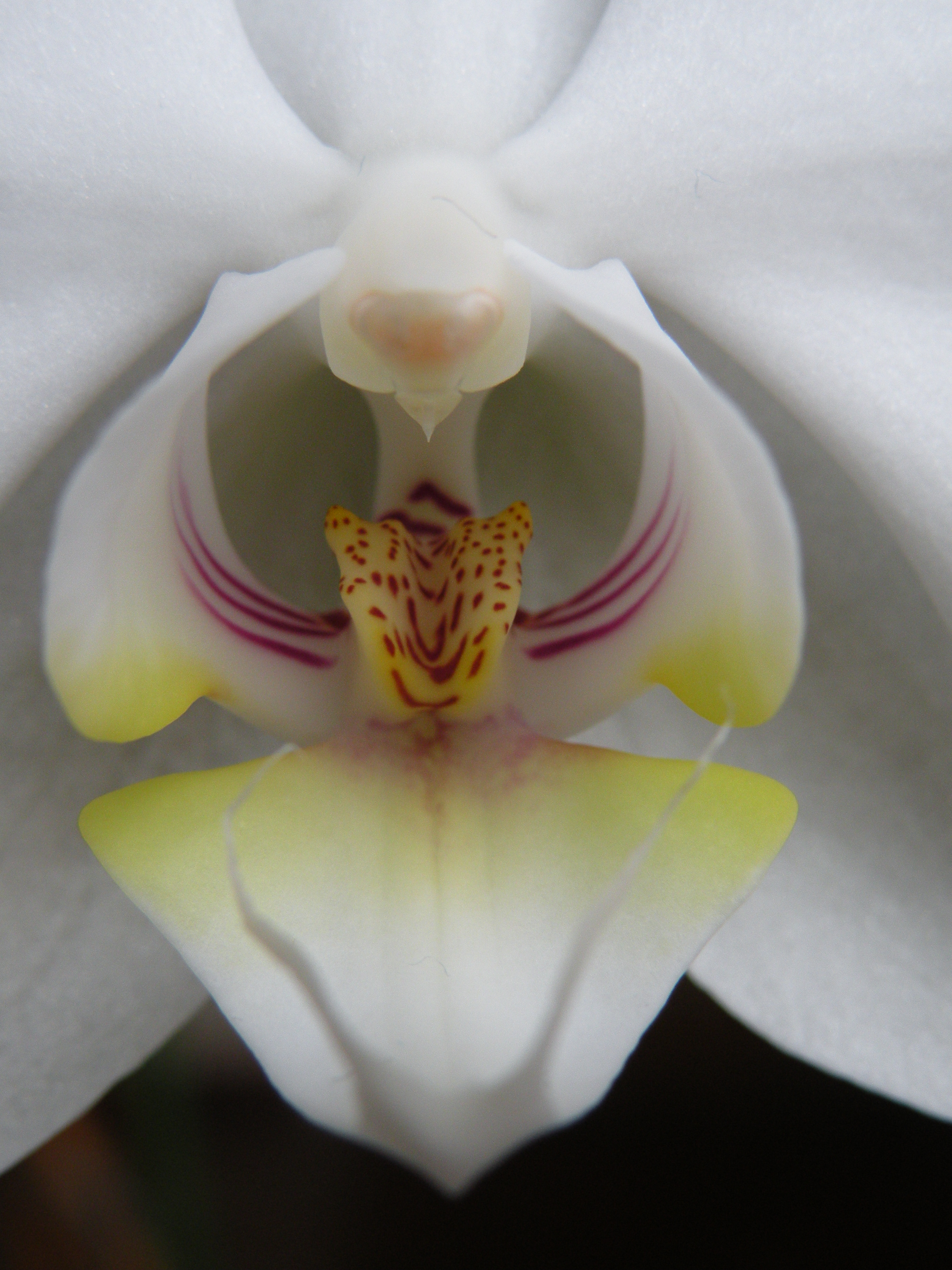 Closeup of the blossom of a Phalaenopsis.